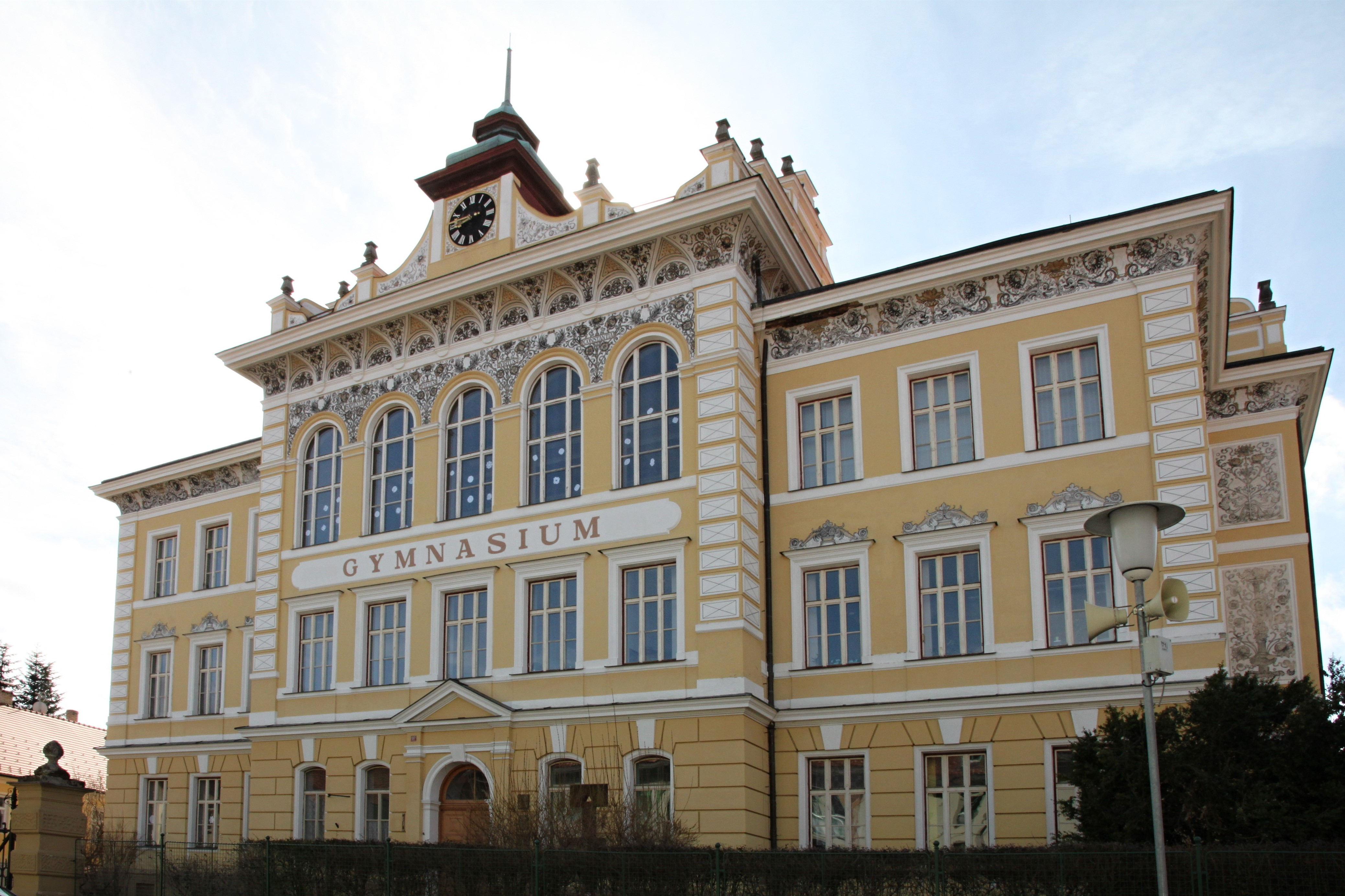 Gymnasium (comprehensive school; high school) in Zlatá stezka no. 137 in Prachatice. South Bohemian Region, Czechia.